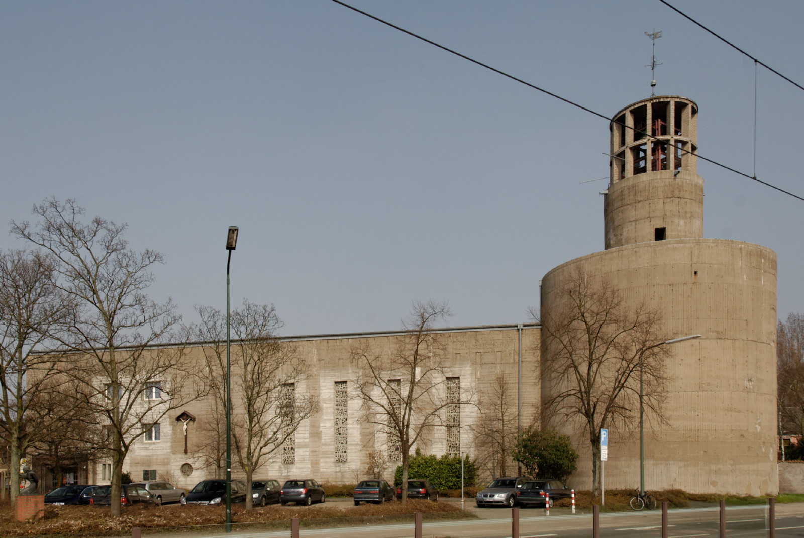 Bunkerkirche St. Sakrament, Pastor-Klinkhammer-Platz 1, Kevelaerer Straße 24 in Düsseldorf-Heerdt, Germany This is a photograph of an architectural monument.